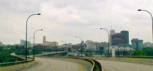 Panorama of Akron, Ohio.